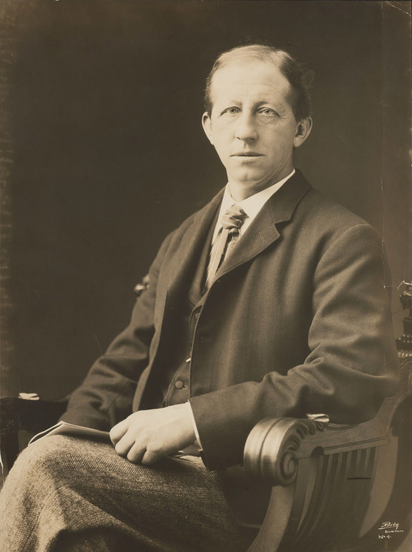 Title: LeBaron Russell Briggs [photographic portrait, 1904] Alternate Title: Briggs, LeBaron Russell [photographic portrait, 1904] Work Type: photographs Creator: Purdy Studios , Boston, MA, United States , photographer Date: 1904